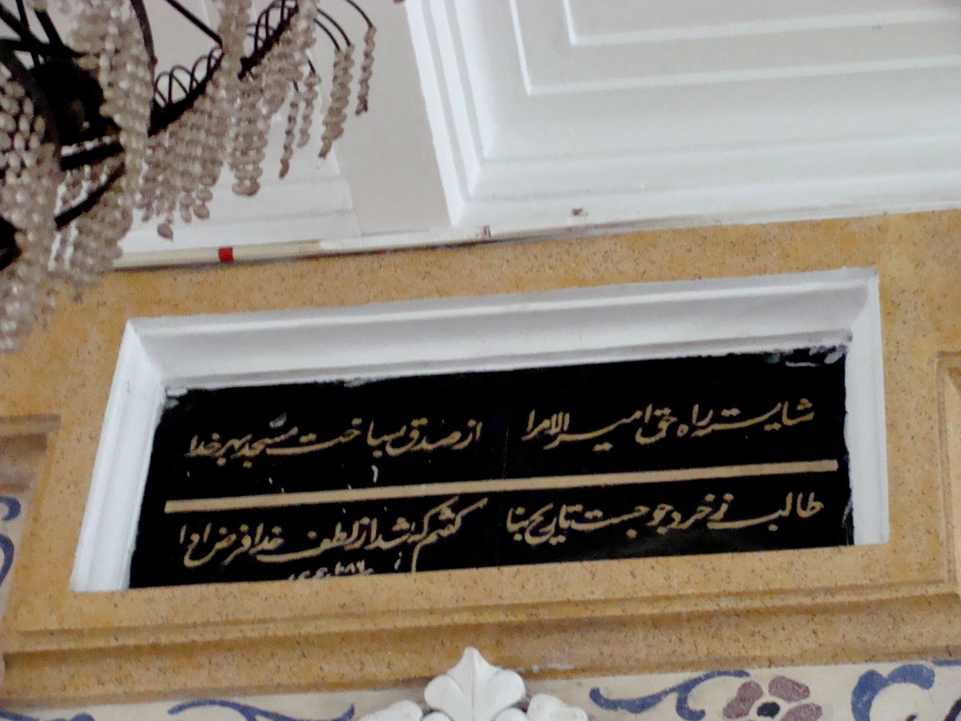 Persian Inscription inside the Chawk Bajar Shahi Mosque, Dhaka, Bangladesh. The inscription reads: "The rightly guided Amīr al-Umarā Shaista Khan - built this mosque for the sake of God / To the seeker (t̤ālib) enquiring its date - I said, "God's bidding is accomplished" / Year 1086 Hijri (1675-76 CE)." It has been suggested that Shaista Khan himself had composed the versified inscription, as his poetic nom de plume was "Talib".